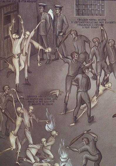 Detail from the Icon of the New Martyrs of the Romanian Land, Diaconești monastary (Bacău county) showing political detainees being tortured at Gherla prison by torturers of the Communist regime.